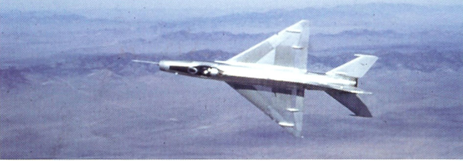 4477th Test and Evaluation Squadron -MiG-21 Aileron Roll